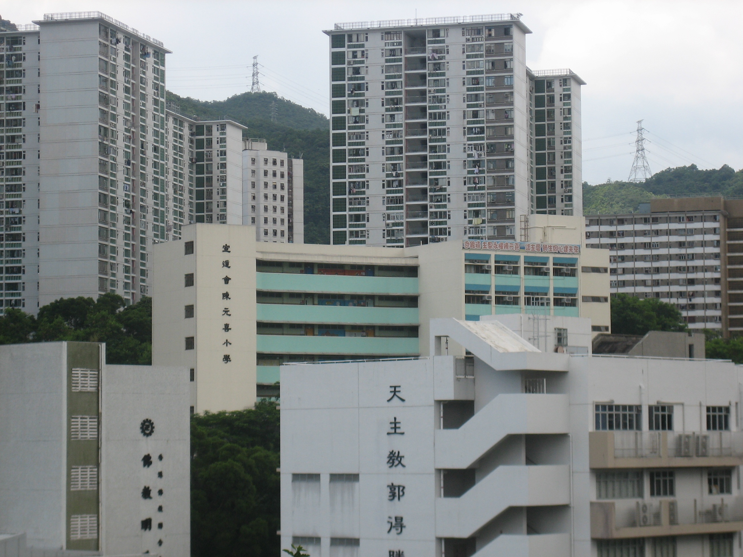 Christian Alliance H C Chan Primary School